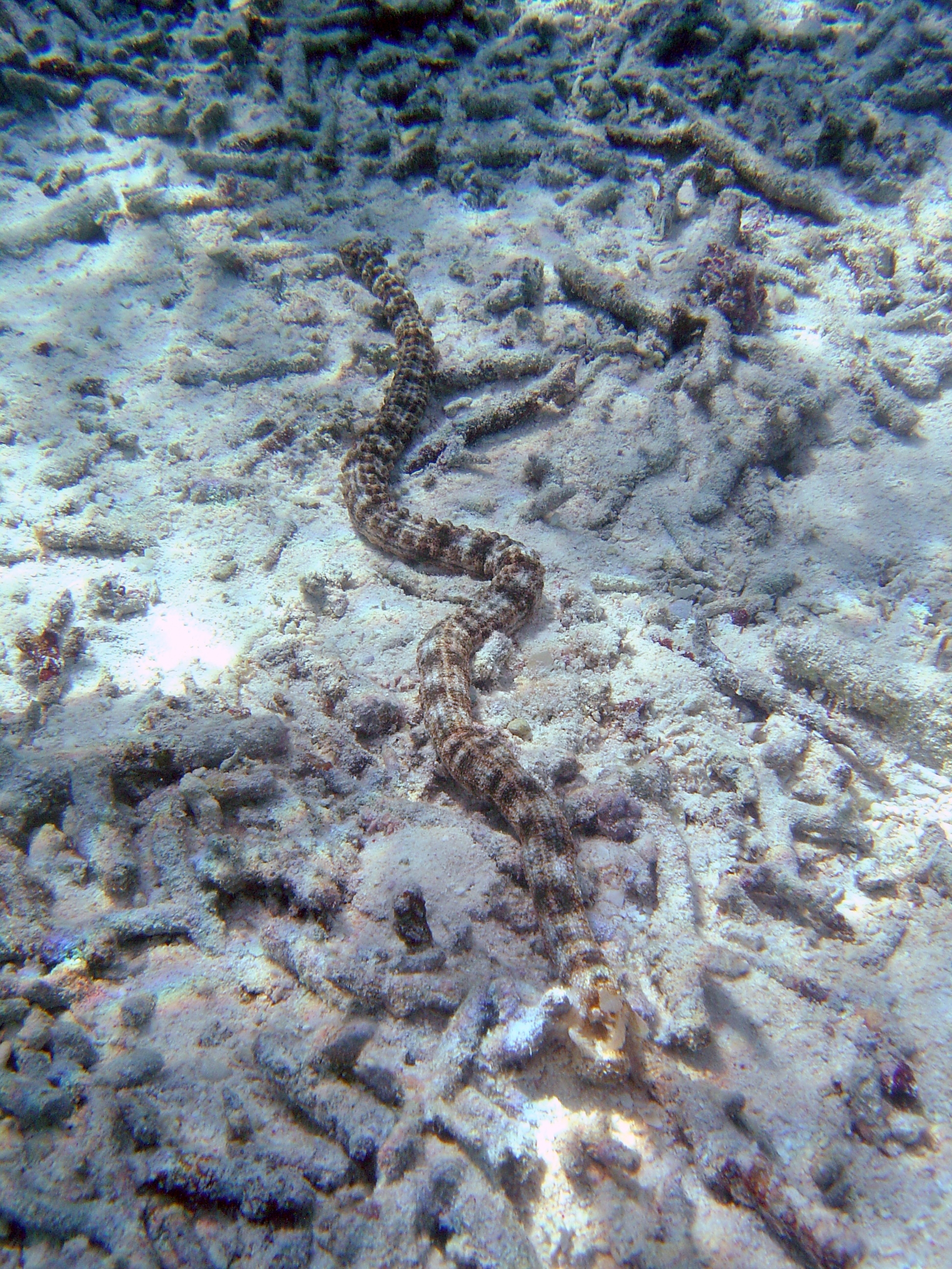 A long thin holothurian sea cucumber (Synapta maculata). Mariana Islands, Guam.